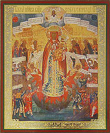 The Joy of All Who Sorrow icon of the Theotokos from Epiphany Cathedral, Oryol, Russia. Painted before 1847.